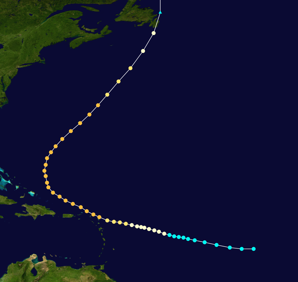 1899 Atlantic hurricane 5 track. Uses the color scheme from the Saffir-Simpson Hurricane Scale.